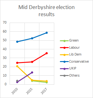 Mid Derbyshire election results